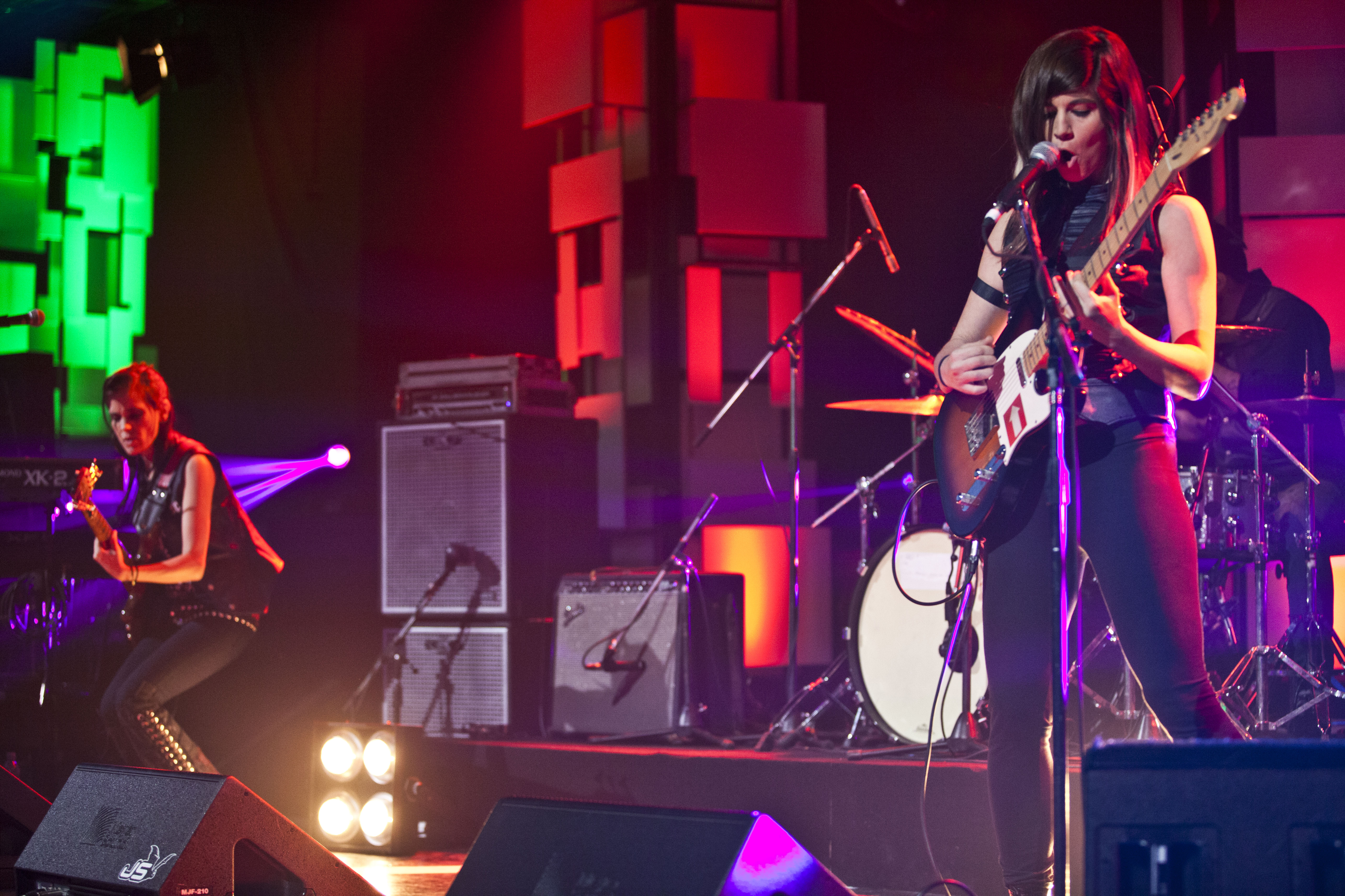 Buenos Aires, 4 de noviembre de 2014 - El Ministerio de Cultura de la Nación, la TV Pública y Radio Nacional Rock realizaron un homenaje a Gustavo Cerati.Fito Páez, Ricardo Mollo, Charly García y Catupecu Machu son algunos de artistas y grupos que grabaron versiones de temas creados por el fundador de Soda Stereo. En el programa "Siempre es hoy", Argentina celebra la obra de Gustavo Cerati.Fotos: Mauro Rico / Ministerio de Cultura de la Nación.